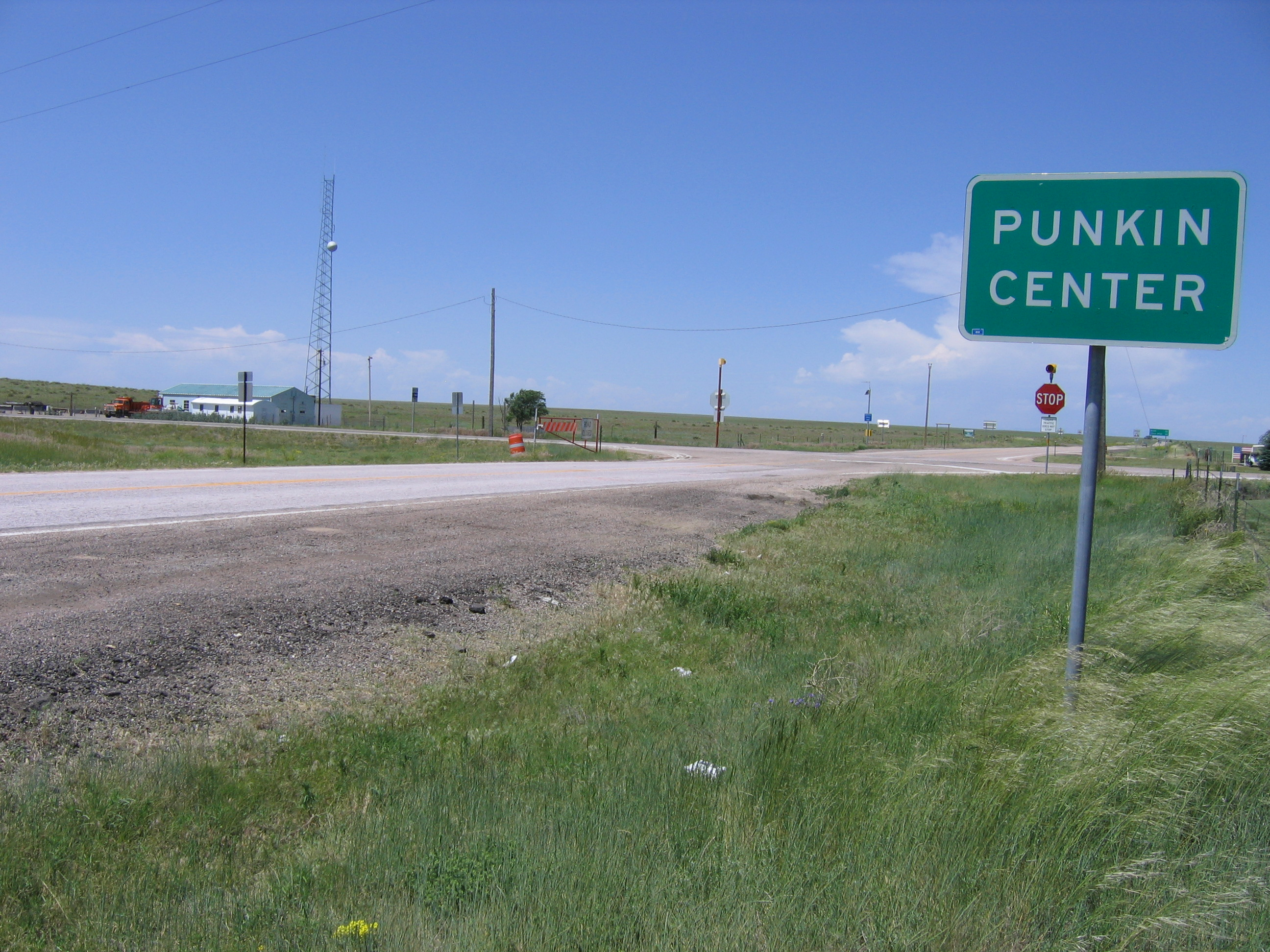 Punkin Center, Colorado